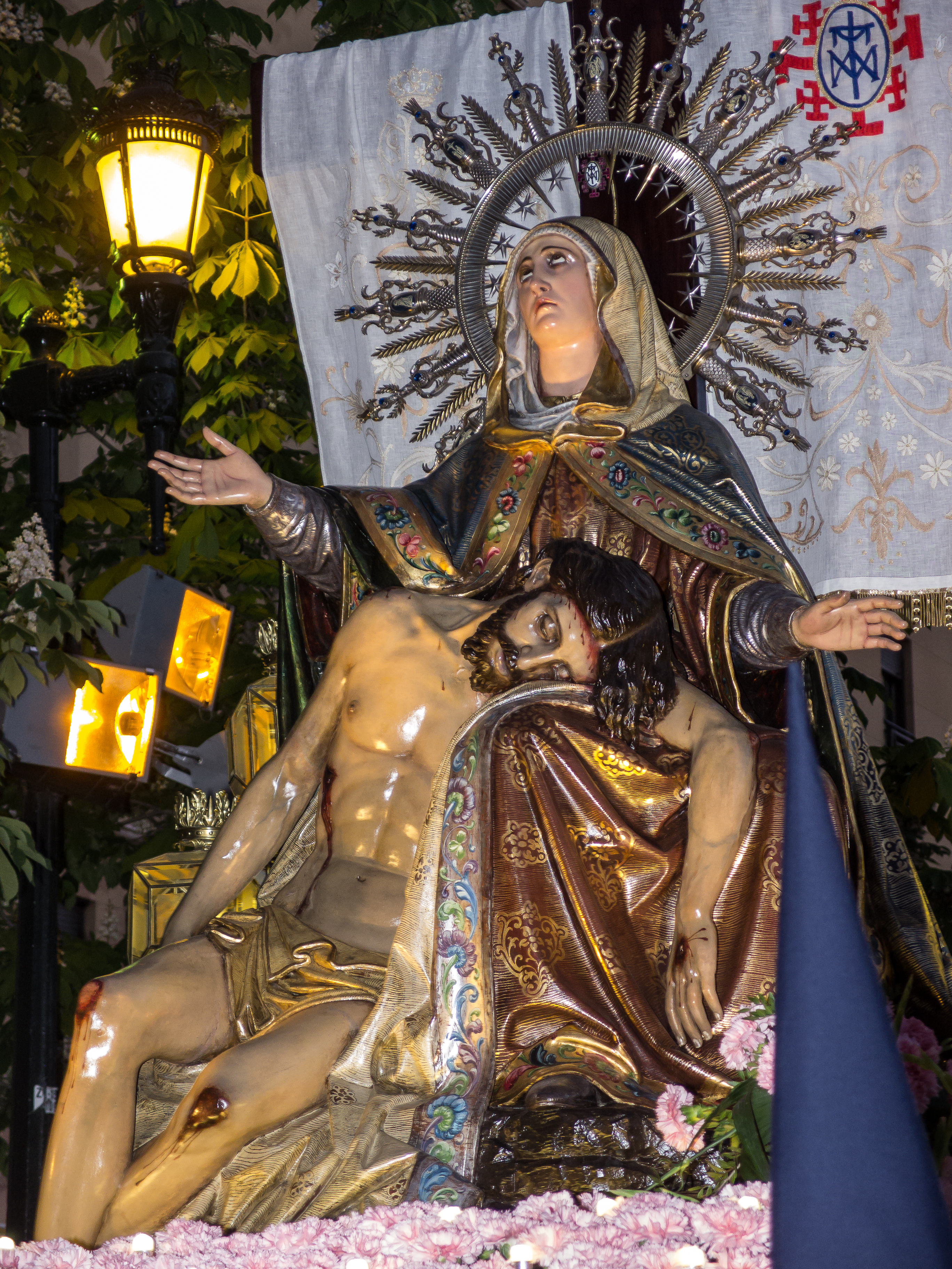 OLYMPUS DIGITAL CAMERA This is a photography of a Folklore festival in Spain (Wikidata id Q9075892).